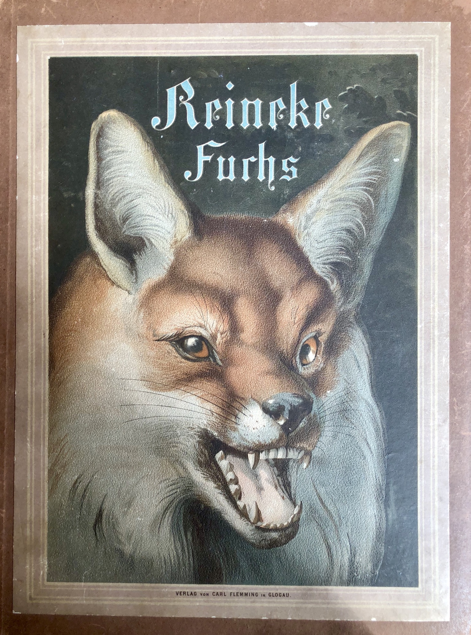 German kids book "Reineke Fuchs" (Reineke, the fox.) Front cover of 1st ed., Carl Flemming eds., Glogau (city), f/ Collection Mark Benecke. "Ein heiteres Kinderbuch von Julius Lohmeyer und Edwin Bormann. Mit 12 Bildern von Fedor Flinzer. Freie Nachdichtung des niederdeutschen Reineke de Vos.)